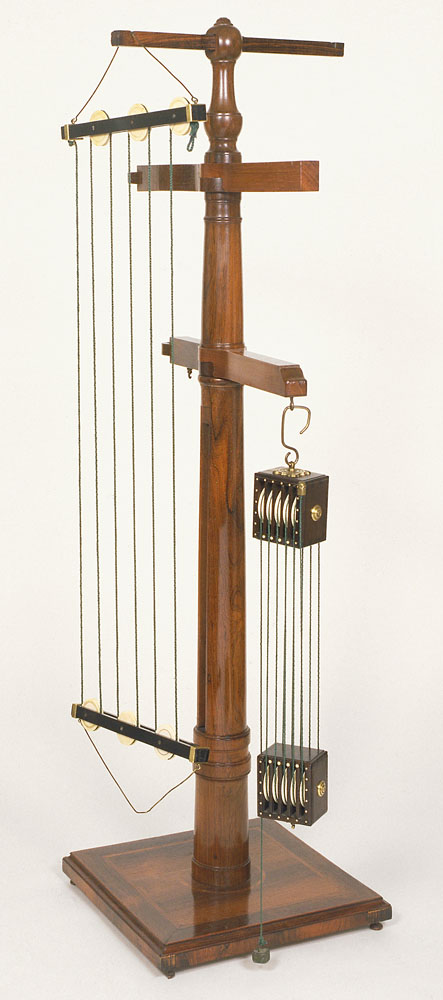 AuthorWillem Jacob 's GravesandeDescription